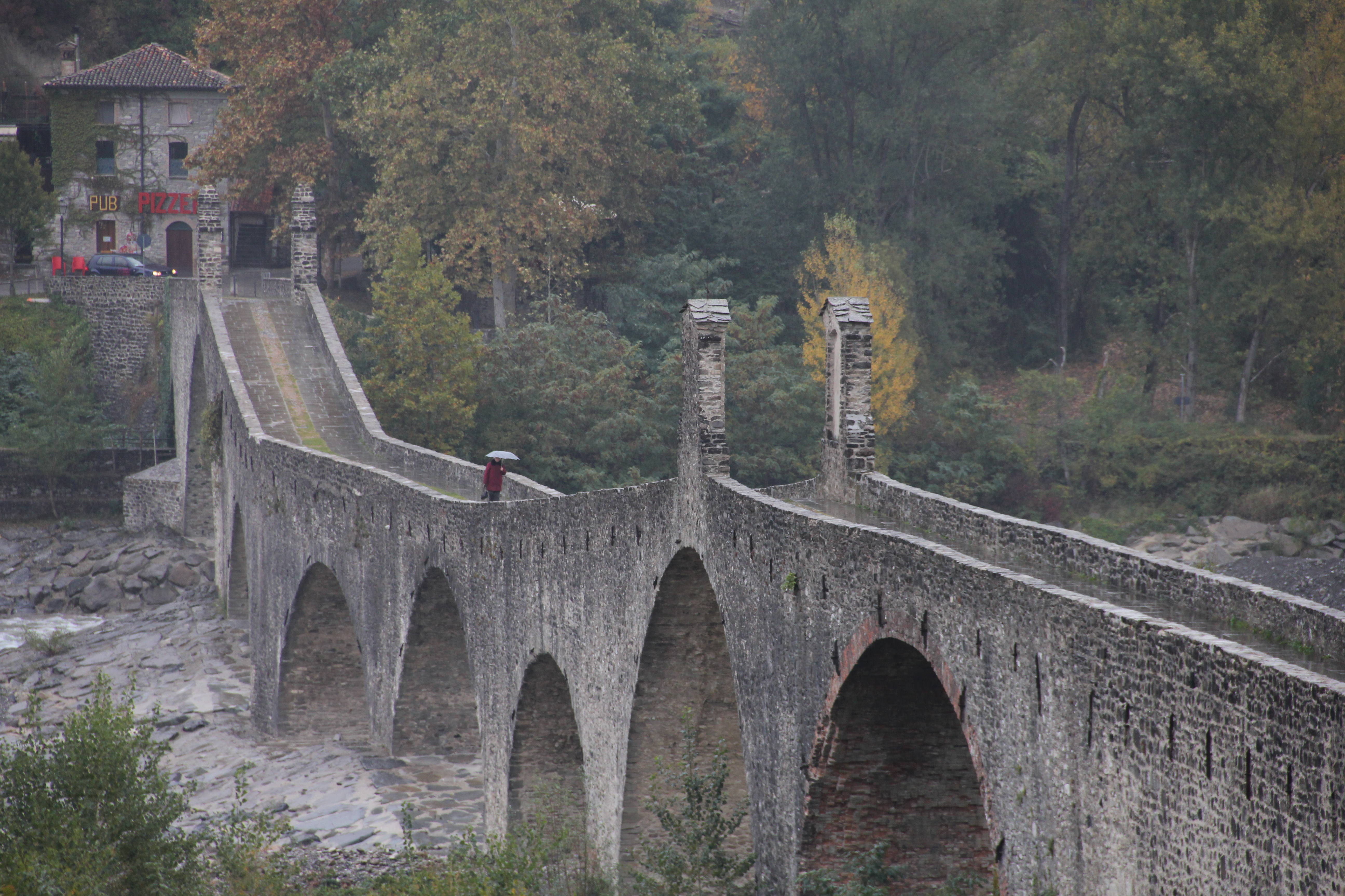 The Devil's Bridge, Bobbio, Italy